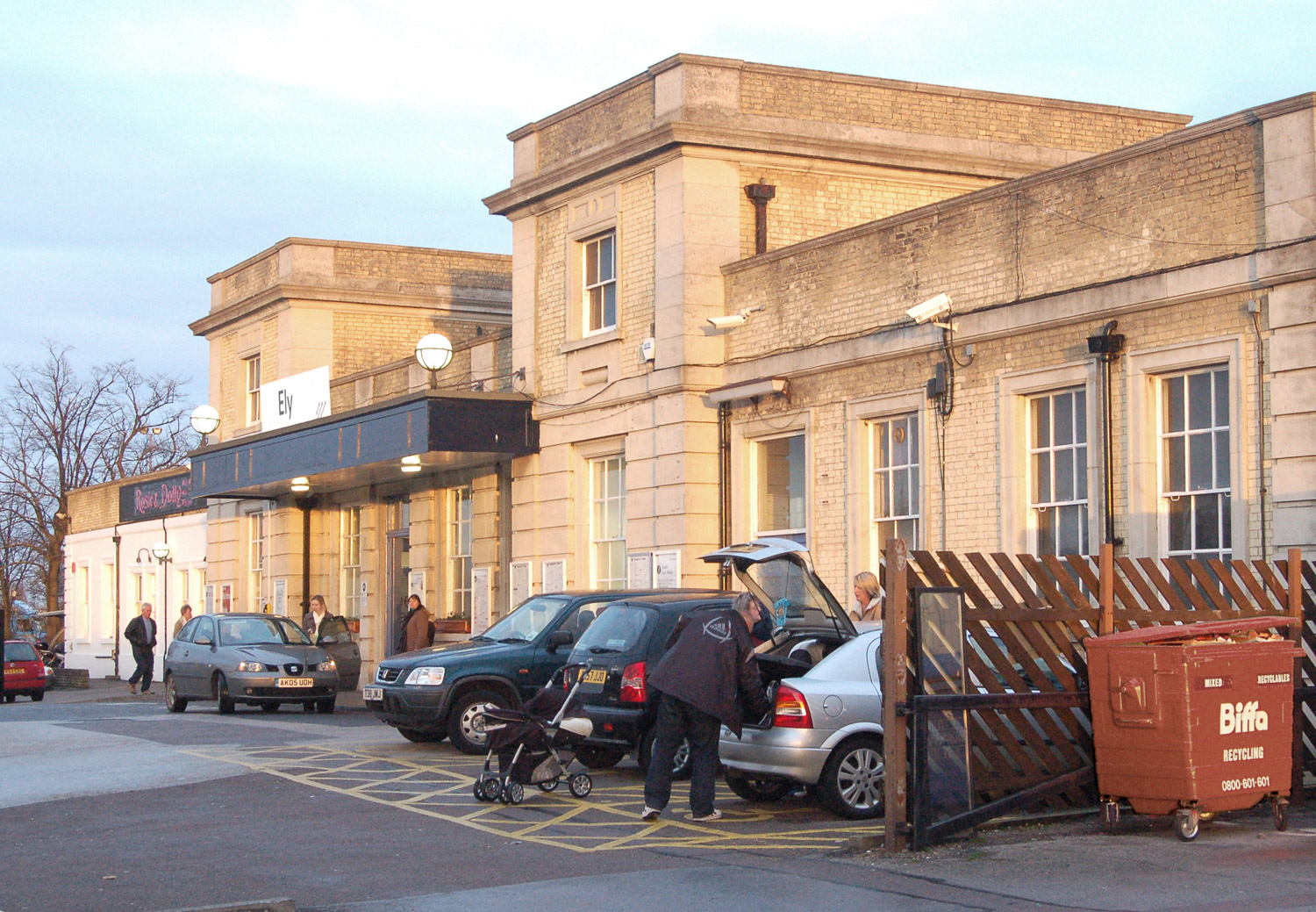 Ely railway station frontage in 2009